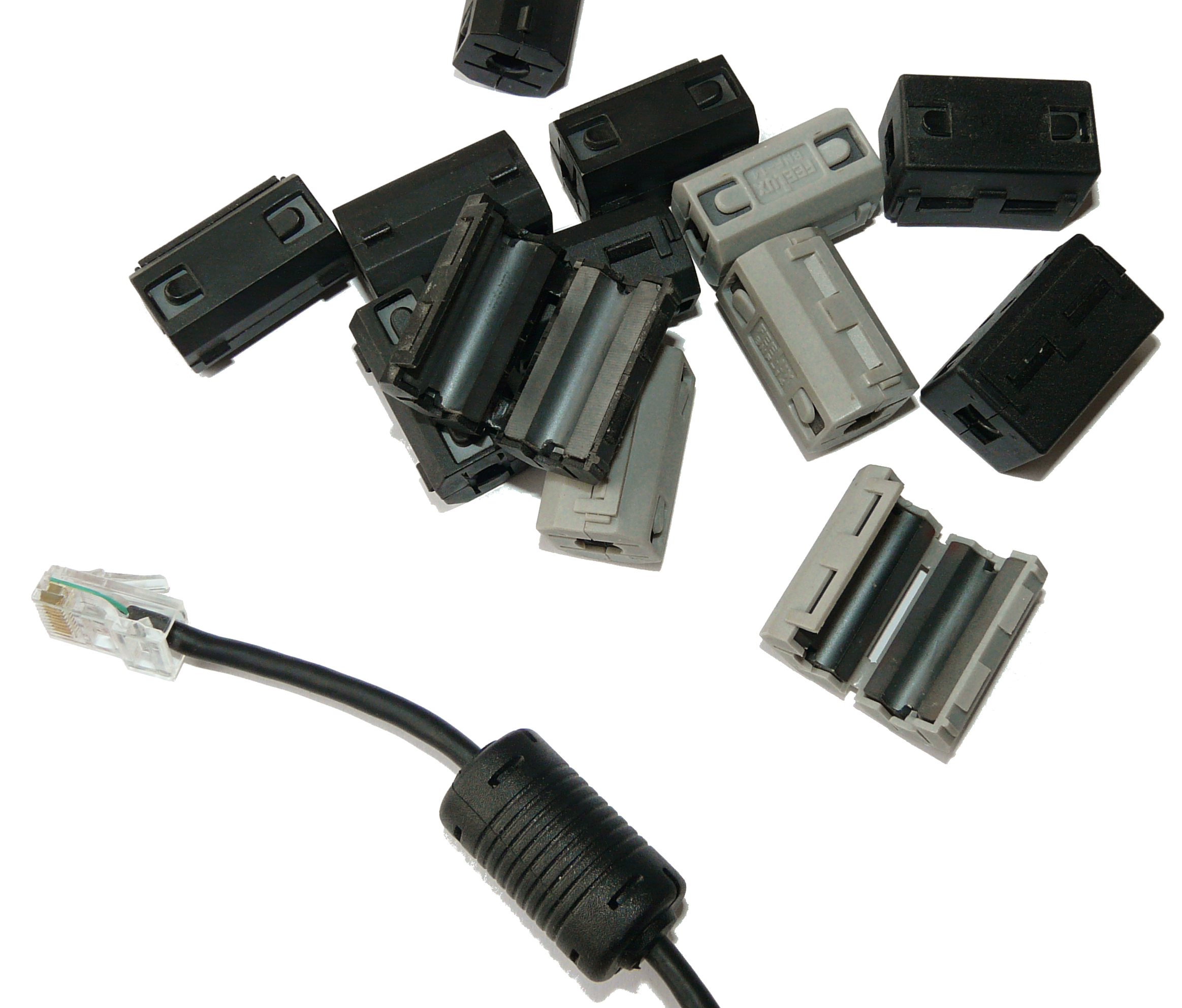 Ferrite beads